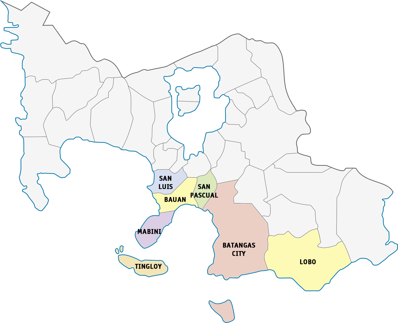 Map of the 2nd legislative district of Batangas, PhilippinesTagalog: Mapa ng Ikalawang distrito ng Batangas, Pilipinas